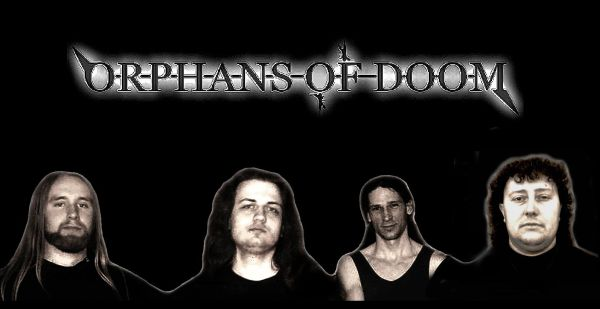 picture with band - orphans of doom